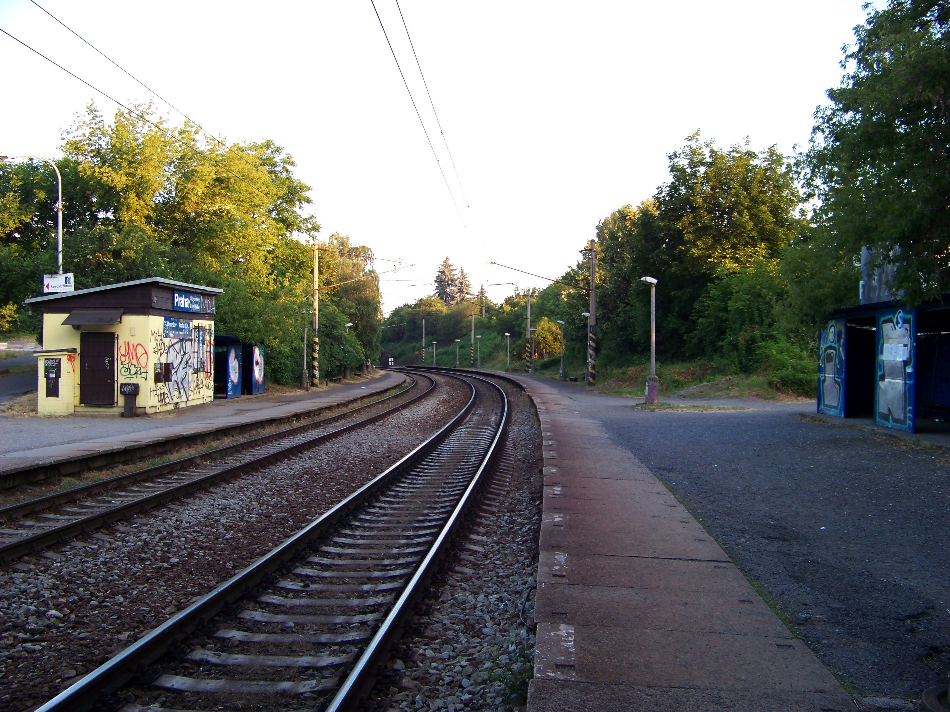 Prague-Strašnice, Czech Republic. Praha-Strašnice zastávka.